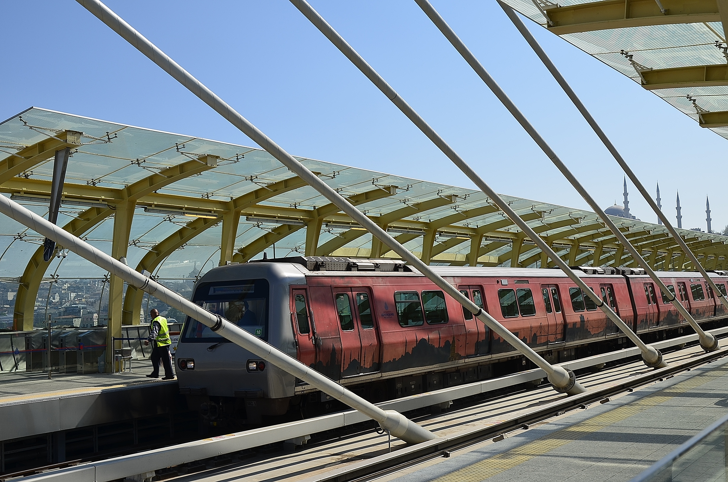 "Haliç" Station on the Golden Horn Metro Bridge in Istanbul